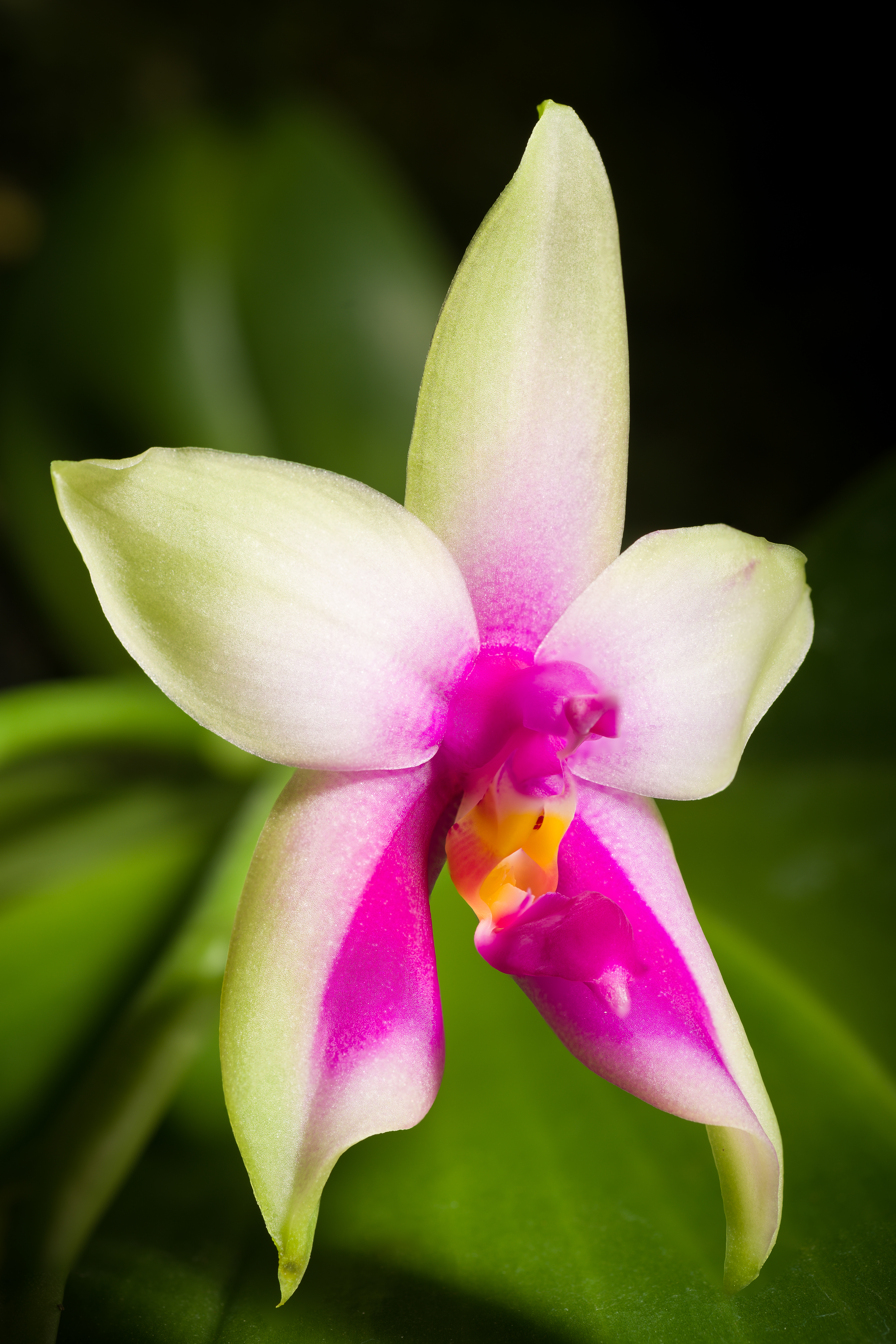 SUBGENUS Polychilos SECTION Amboinenses Sweet (1968) Distribution: Borneo (42 BOR) Lifeform: Epiphyte Basionym Phalaenopsis violacea var. bellina Rchb.f., Gard. Chron., n.s., 22: 262 (1884) Heterotypic synonyms Phalaenopsis violacea var. murtoniana Rchb.f., Gard. Chron., n.s., 10: 234 (1878) Phalaenopsis violacea var. bowringiana Rchb.f., Gard. Chron., n.s., 22: 262 (1884) Phalaenopsis violacea var. chloracea Rchb.f., Gard. Chron., n.s., 22: 262 (1884) Phalaenopsis violacea var. punctata Rchb.f., Gard. Chron., n.s., 22: 262 (1884) Phalaenopsis bellina f. bowringiana (Rchb.f.) Christenson, Brittonia 47: 59 (1995) Phalaenopsis bellina f. murtoniana (Rchb.f.) Christenson, Brittonia 47: 59 (1995) Phalaenopsis bellina f. punctata (Rchb.f.) Christenson, Brittonia 47: 59 (1995) Phalaenopsis bellina f. alba Christenson, Phalaenopsis: 113 (2001) Phalaenopsis bellina f. chloracea (Rchb.f.) O.Gruss & M.Wolff, Orchid. Atlas: 321 (2007)